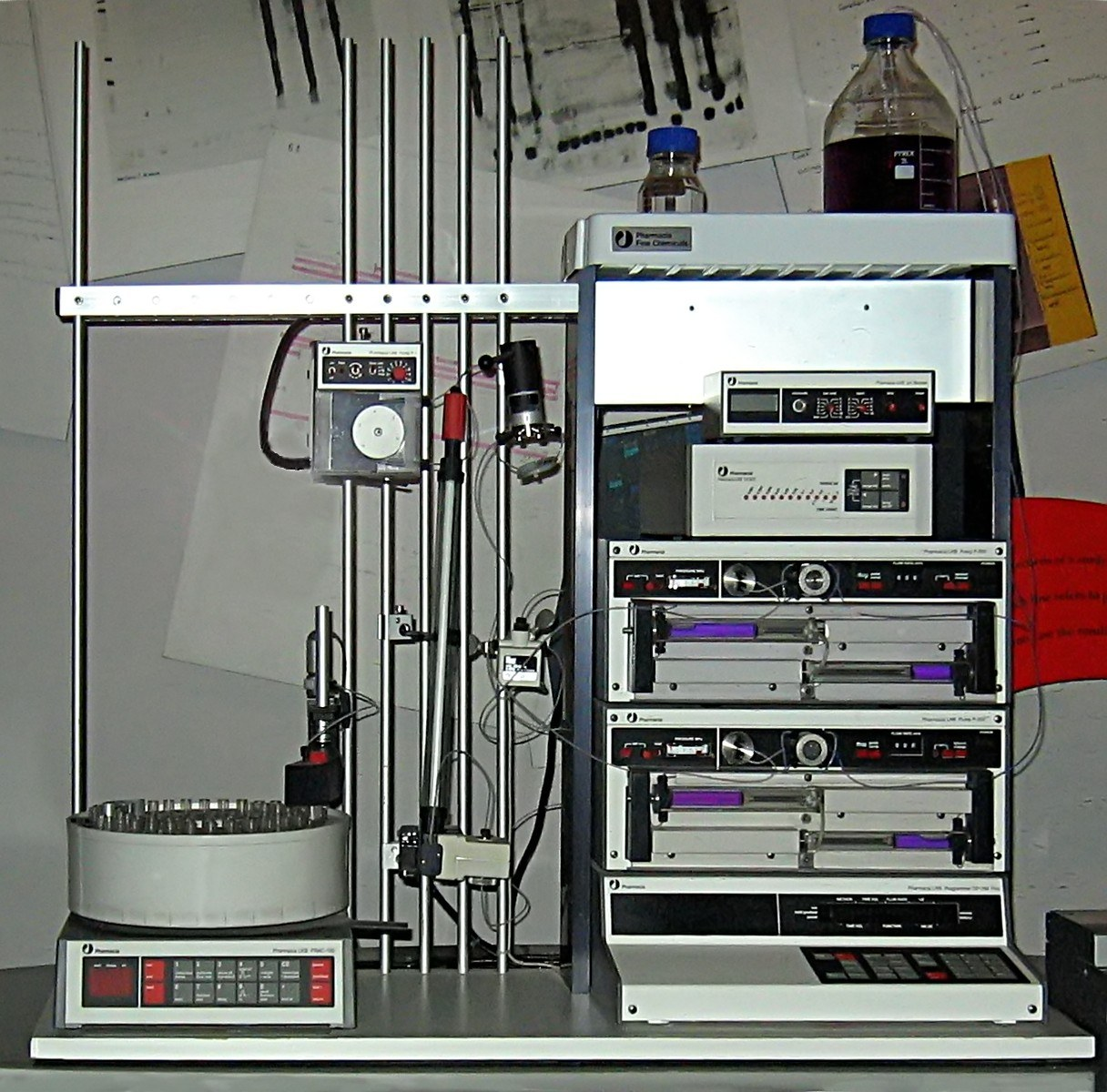 A fast protein liquid chromatography apparatus (1993, Pharmacia Biotech). Now exposed at the Science Museum, London.